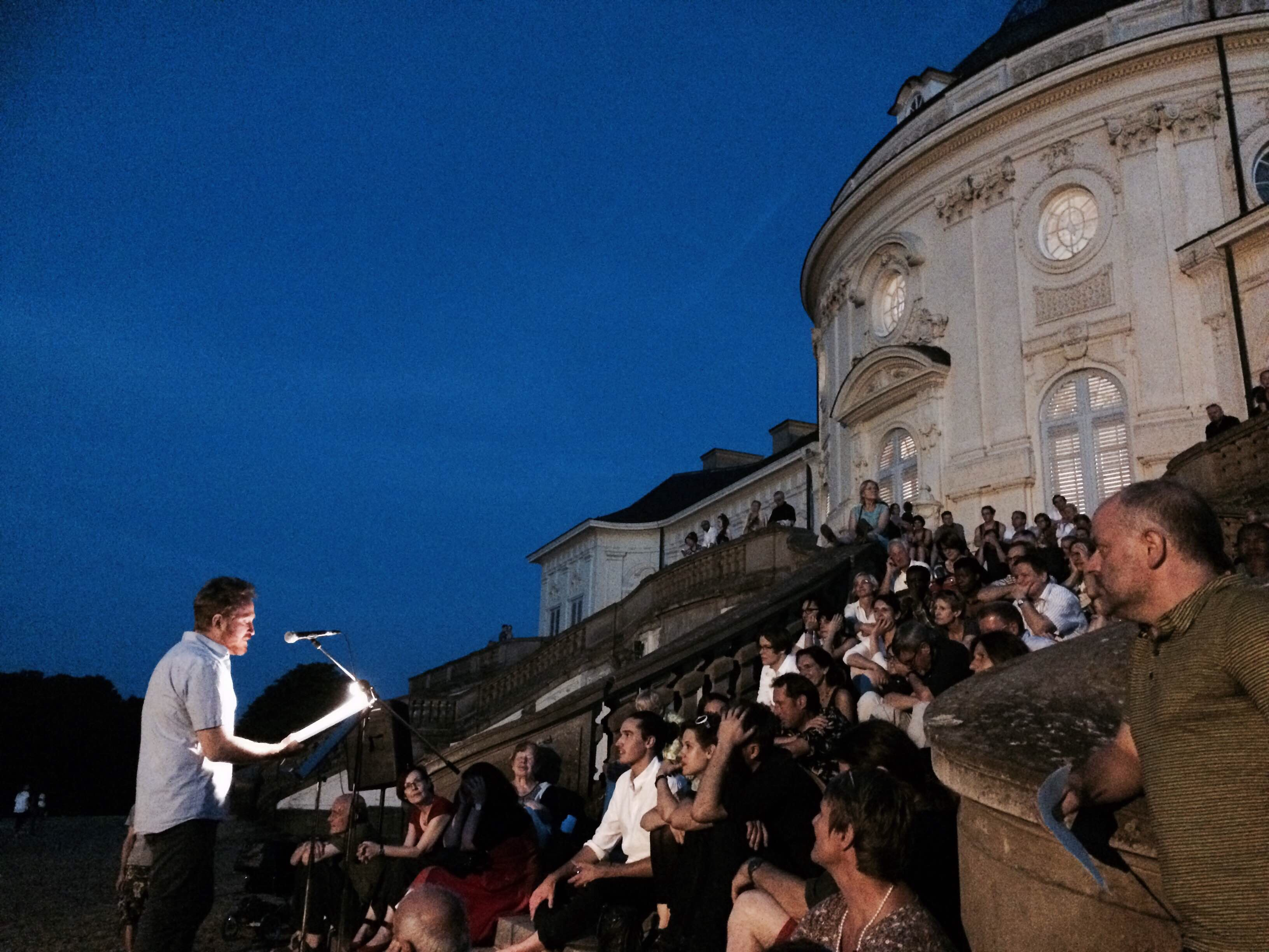 Photograph of American author Tod Wodicka reading at Schloss Solitude, in Germany, 2016.